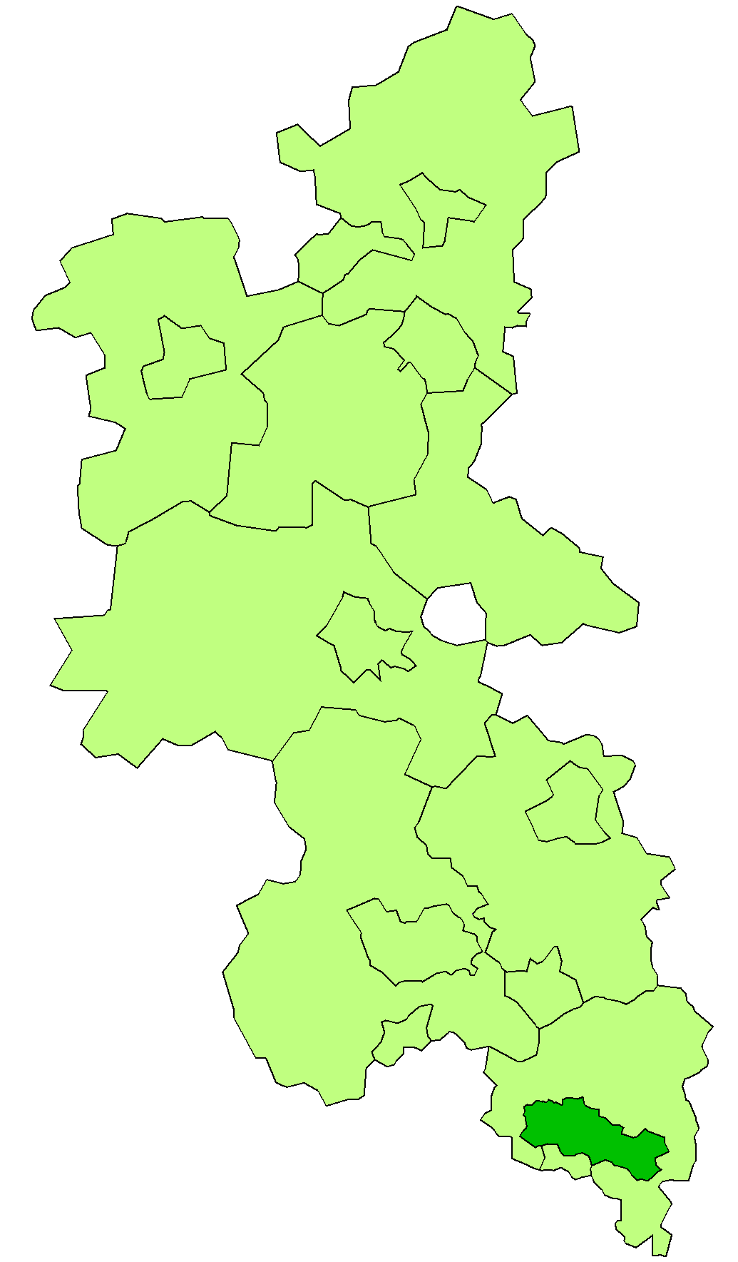 Slough within Bucks in 1971